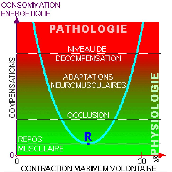 Muscles functions and cellular energy (ATP).